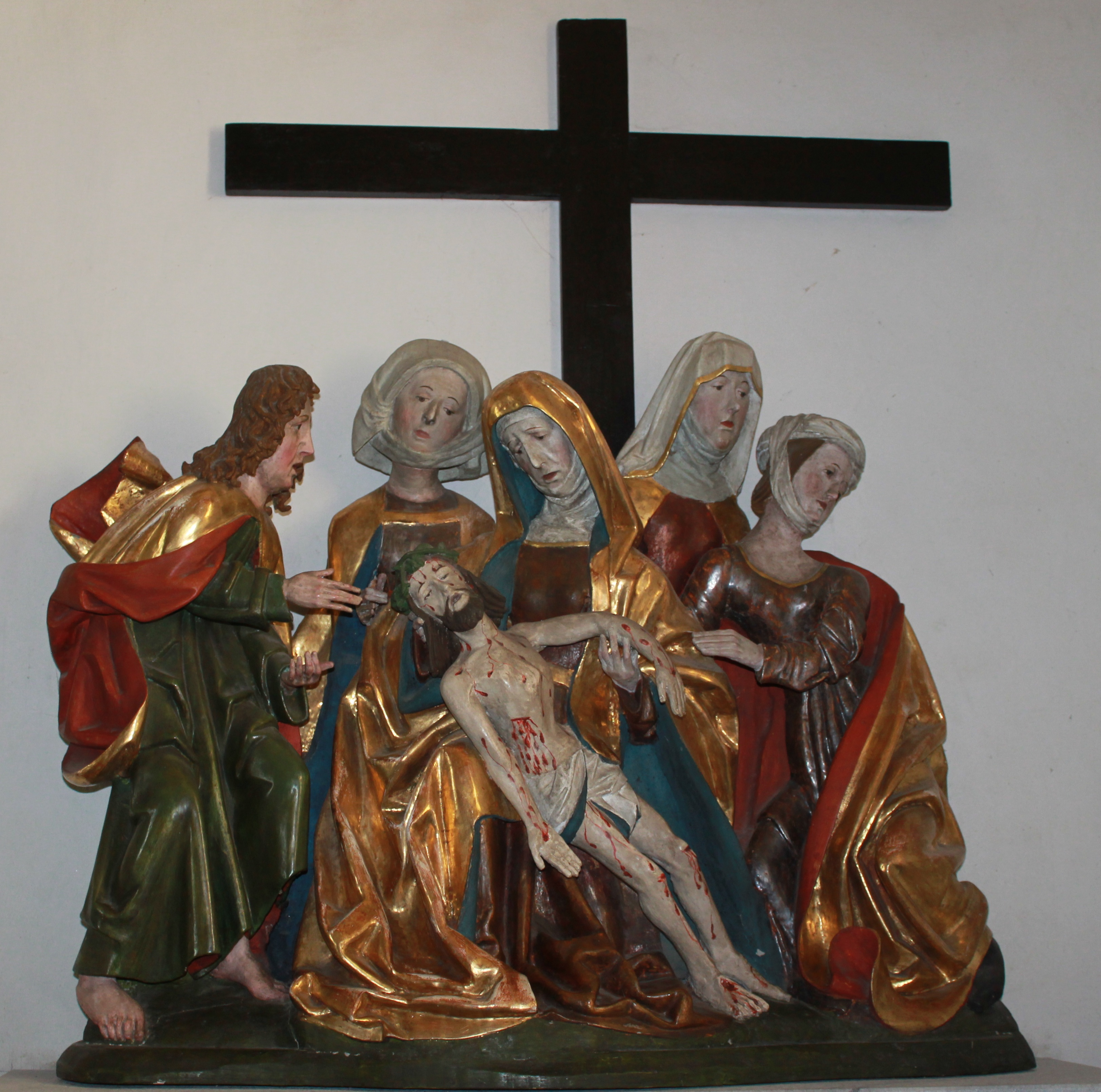 Our Lady of the Rosary church in Maria Wörth - Lamentation of Christ